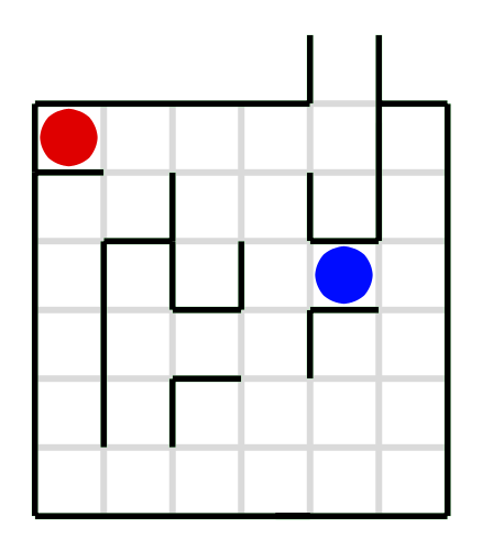 Sample maze for Robert Abbott's Theseus and the Minotaur puzzle.